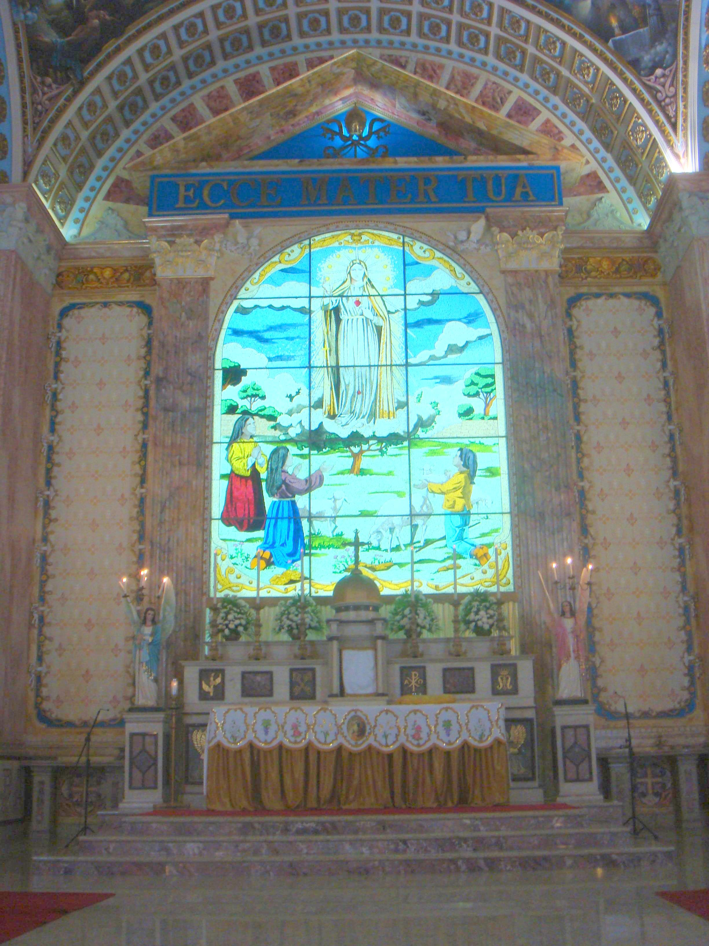 High altar of the Main Church of the Administration of Campos, 2012.